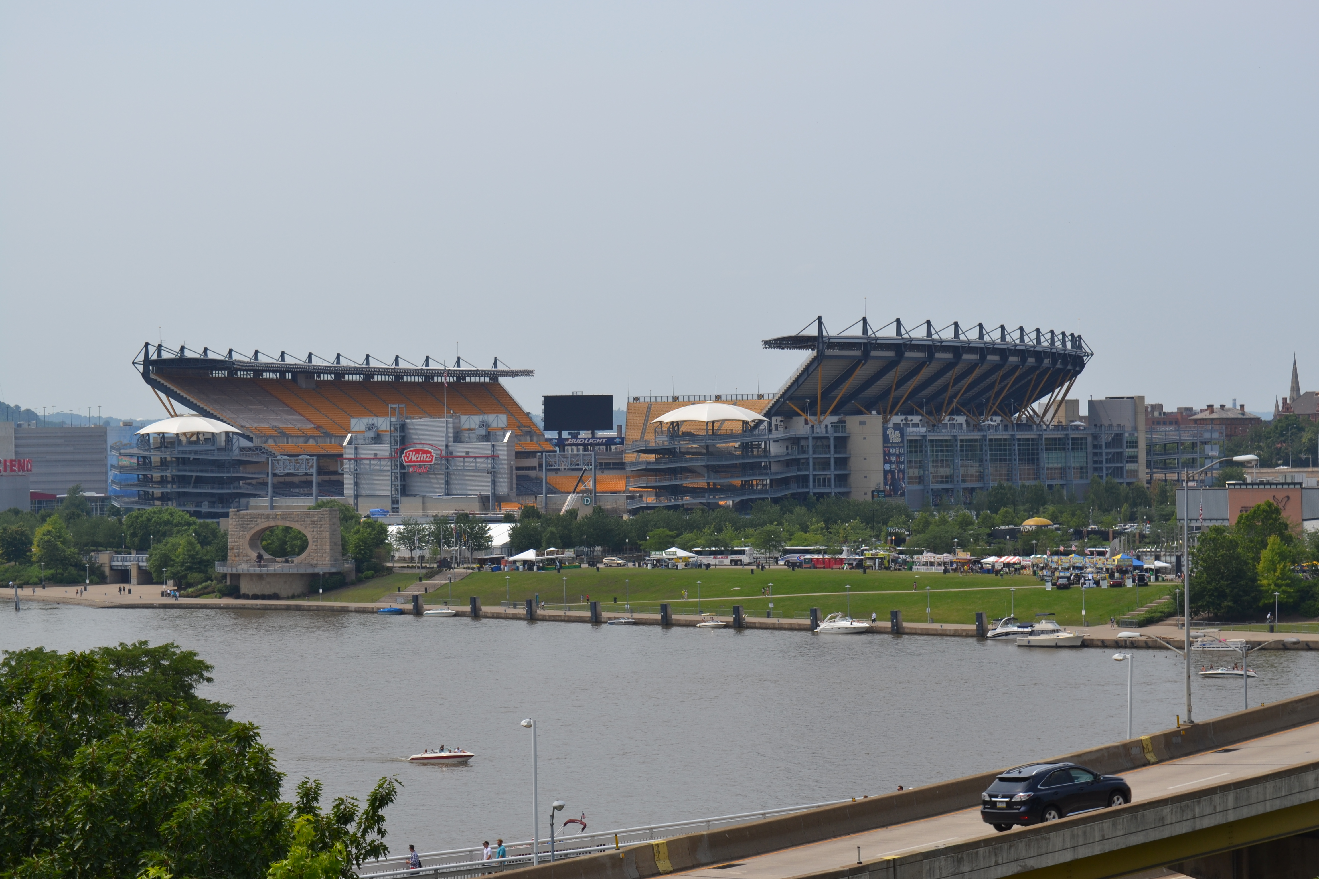 Ariel view of Heniz Field in Pittsburgh, PA